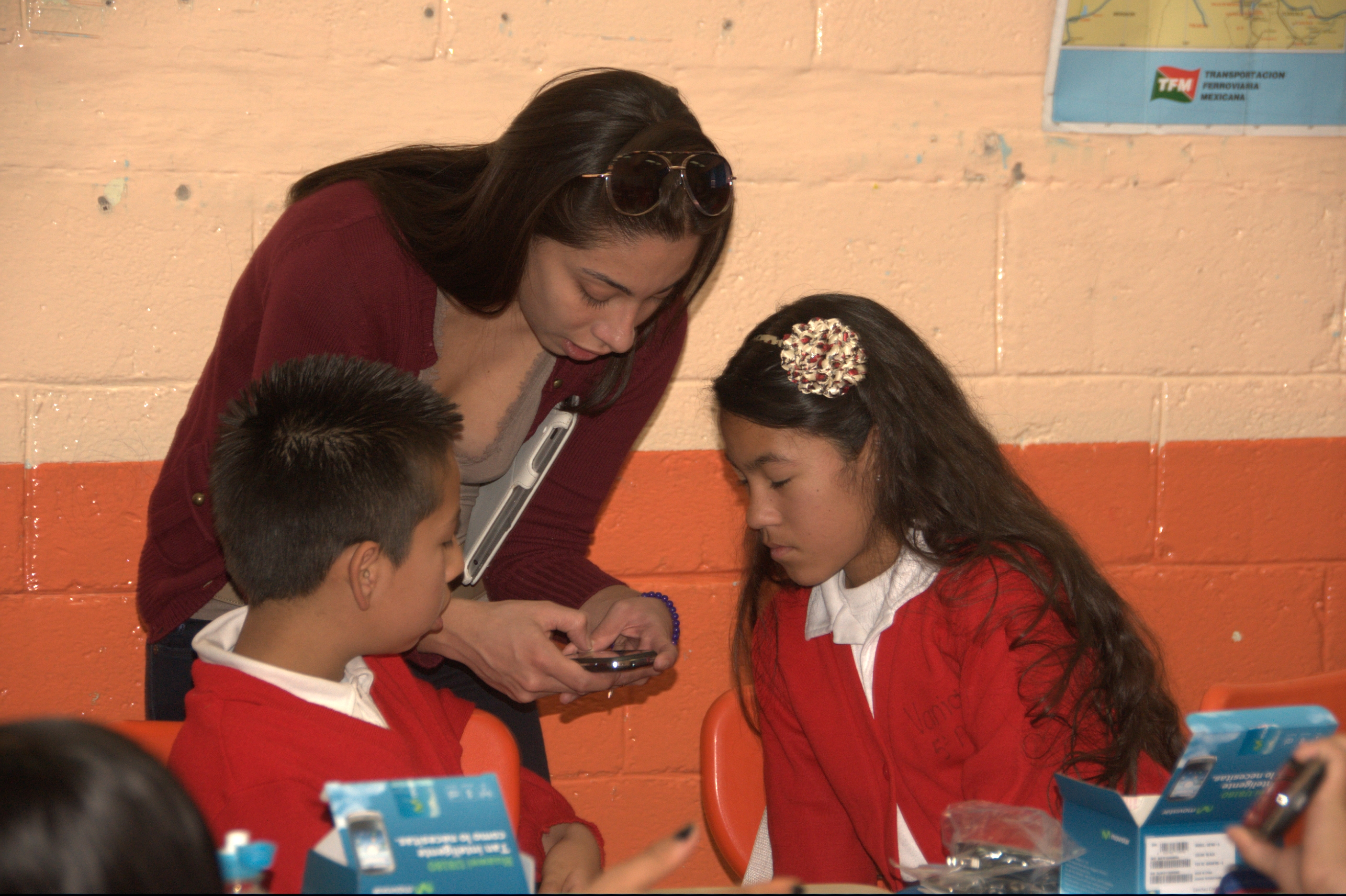 Students of primary school with devices for math studying as part of MatiTec program at Santa Fe, Ciudad de México [2]